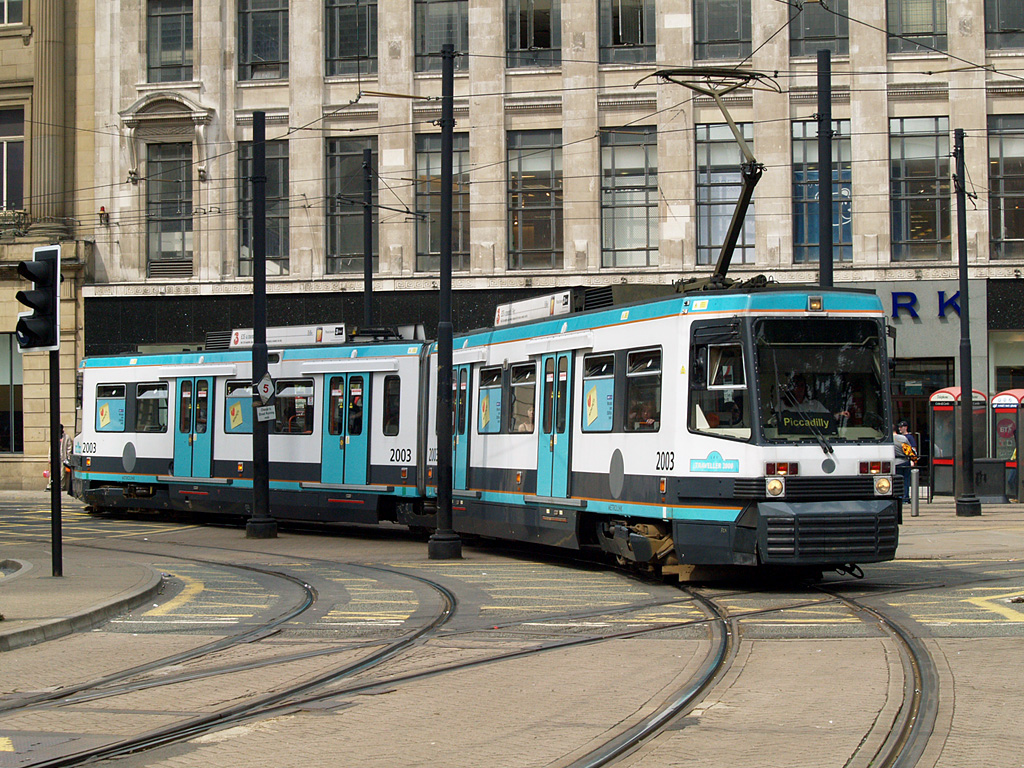 Greater Manchester Metrolink number 2003 TRAVELLER 2000, an Ansaldo T68a (Phase 2) tram turns off Mosley Street, Manchester into Piccadilly Gardens with an inbound service for Manchester Piccadilly railway station service. Friday 25th July 2008